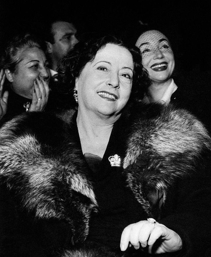 Italian piano player and actress Rina De Liguoro (Elena Caterina Catardi) watching the hundredth performance of the theatrical play La lettera di mammà by the Italian dramatist Peppino De Filippo. Behind her, Italian actress Linda Pini sitting. Rome, 1950s.